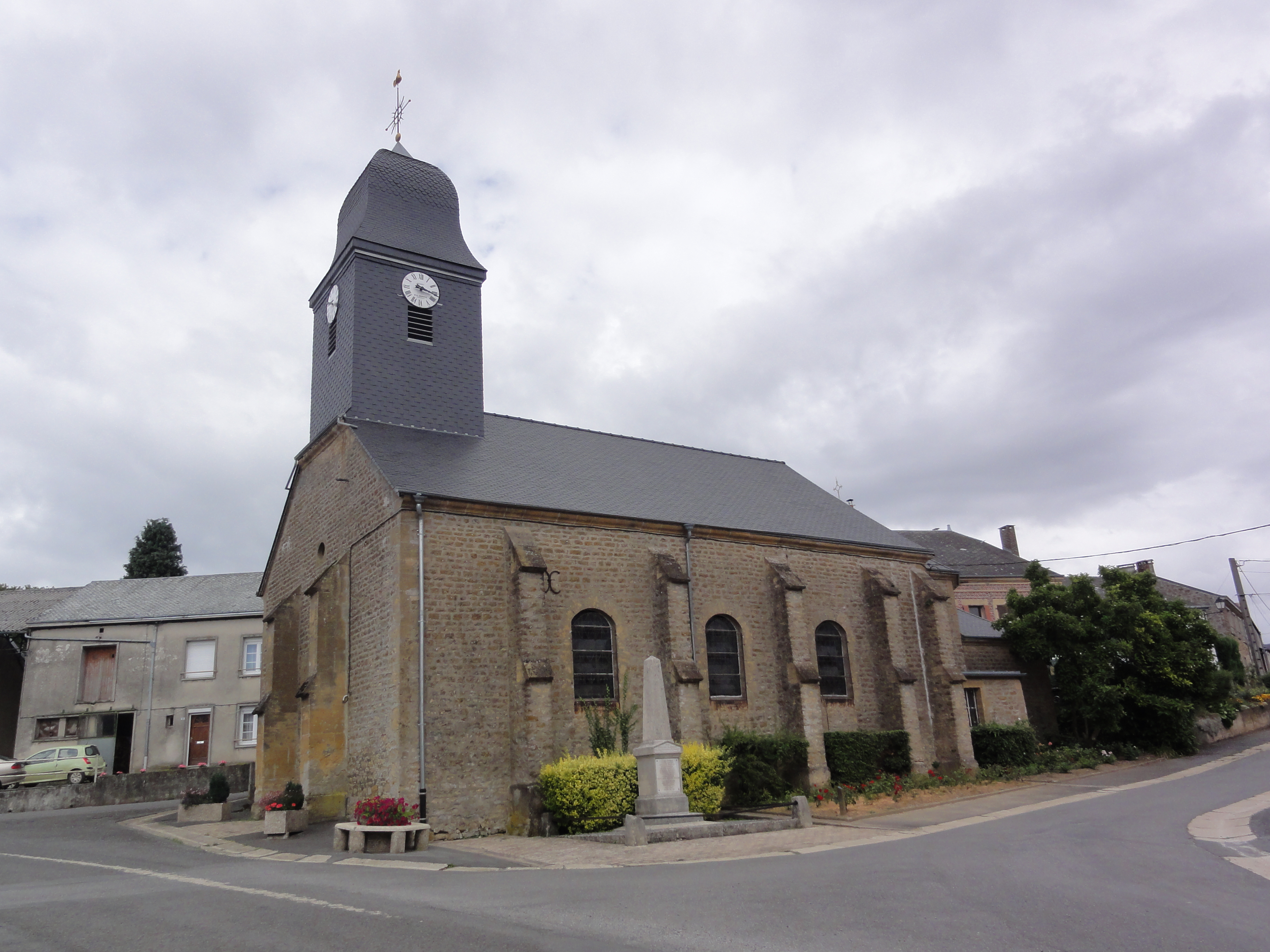 Arreux (Ardennes) église, vue latérale